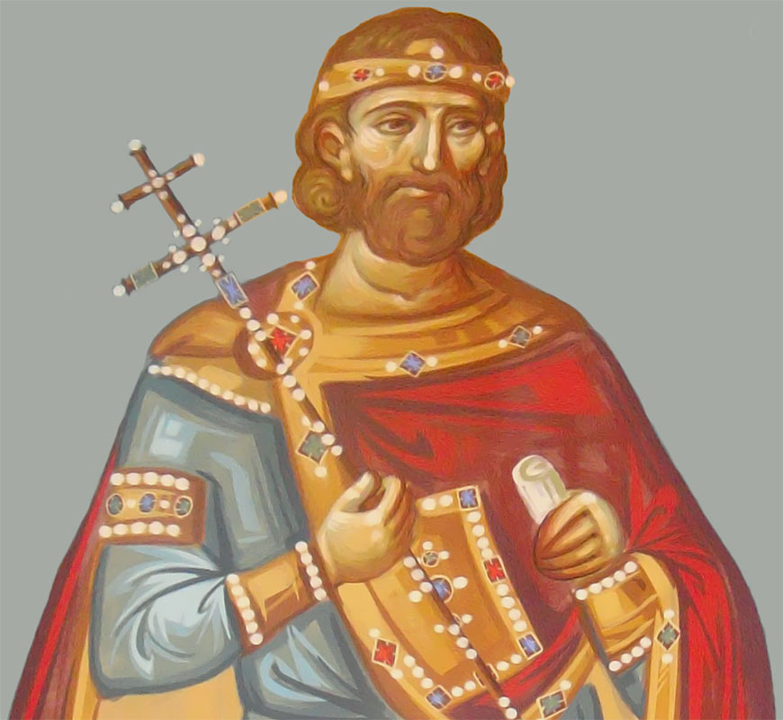 Image of Vukan, Grand Prince of Serbia (r. 1091–1112).